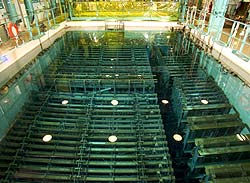 Interim storage of irradiated spent nuclear fuel (SNF) assemblies. The fuel is stored in underwater facilities until it is stabilized for final disposition.